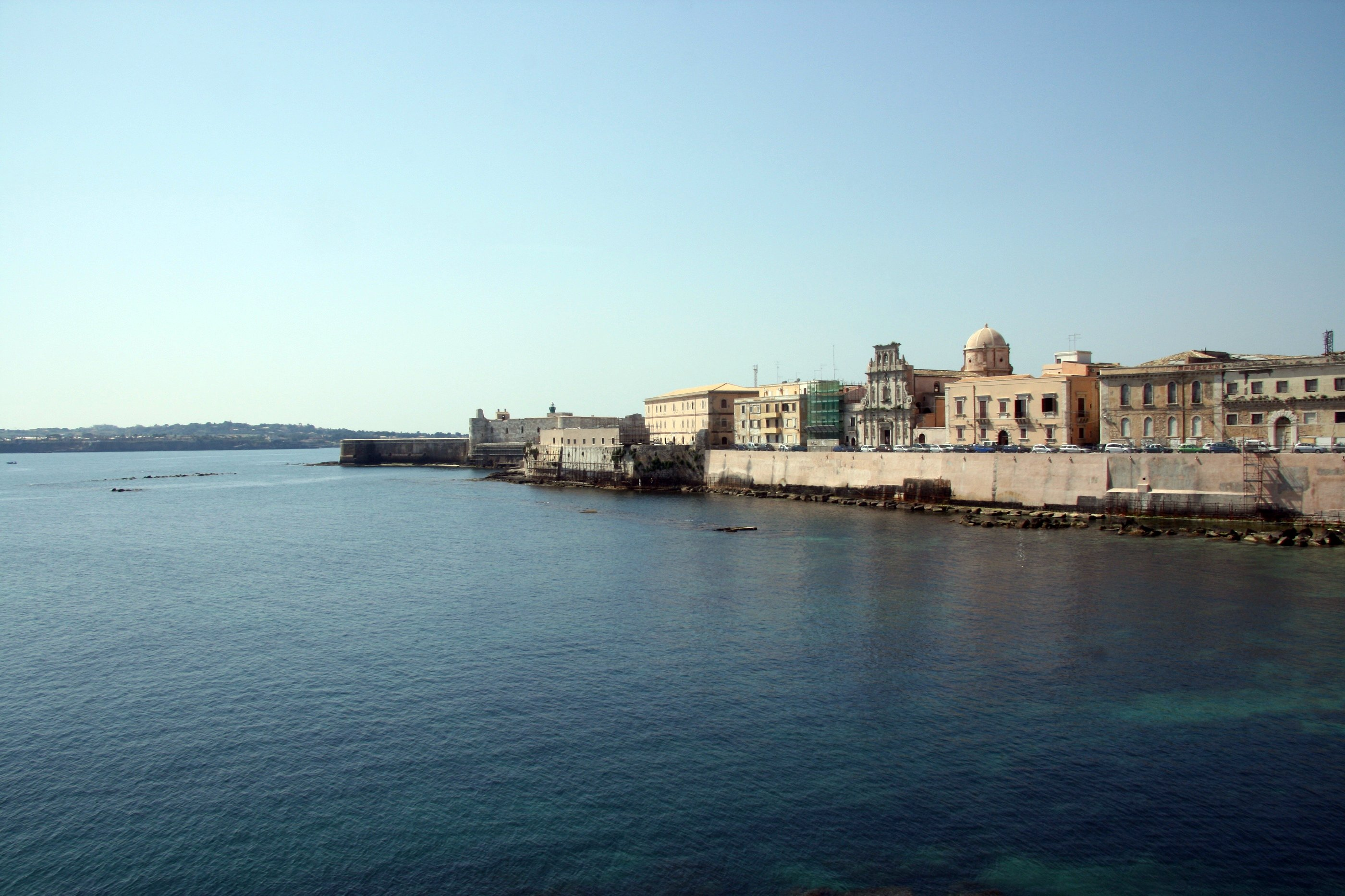 The seafront at Ortygia, Siracusa, Sicily with buildings dating back over 1000 years including the Castello Maniaces - left - (named after a Byzantine general who briefly reconquered the island from the Arabs in 1030 AD before dying in a failed coup d'etait against the Emporer Constantine IX) and the dome and facade of the Church of the Holy Spirit, headquarters of the Confraternity of the Holy Spirit and one of only a few churches opening on to the open sea. Ortygia occupies the ancient Greek city of Syracuse. Originally a Greek colony but latterly a powerful city state ruled by the Tyrant of Syracuse. The title "tyrant" (female - tyranta) did not have it's modern meaning but rather was indicative of a king or dictator, often benign. However, since tyrants often came to power following a coup d'etat and were almost allways from outside the established ruling classes of a city, they were often painted as (modern) "tyrants" by those they had usurped. This whole area is undergoing much restoration and rebuilding and I wager it will become a property "hot spot" in the not too distant future.... beautiful! see... and